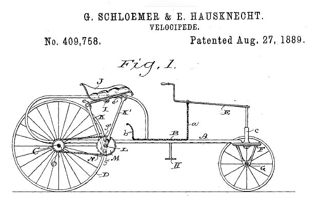 Schloemer 1889 patent